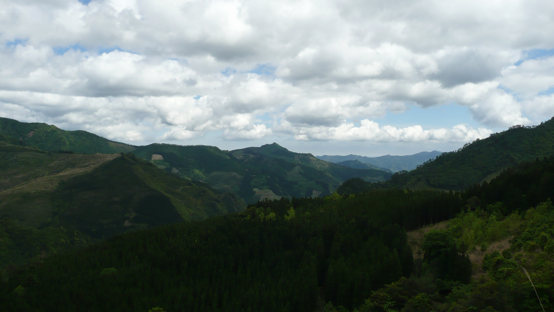 Kyushu Mountains (Nishimera Village, Miyazaki Prefecture, Japan)